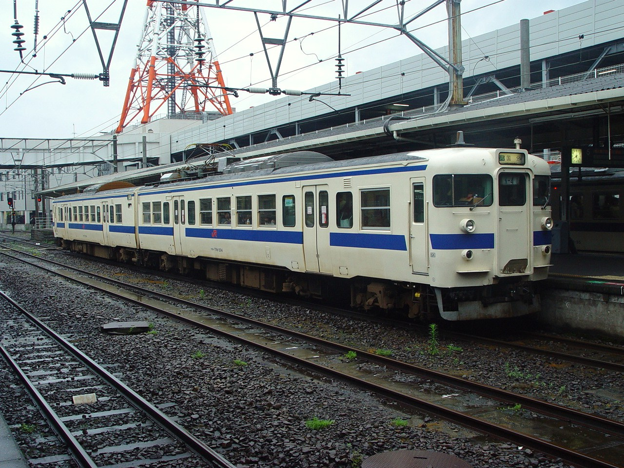 JR Kyushu 717-200 series EMU set HK204 at Kagoshima-Chuo Station